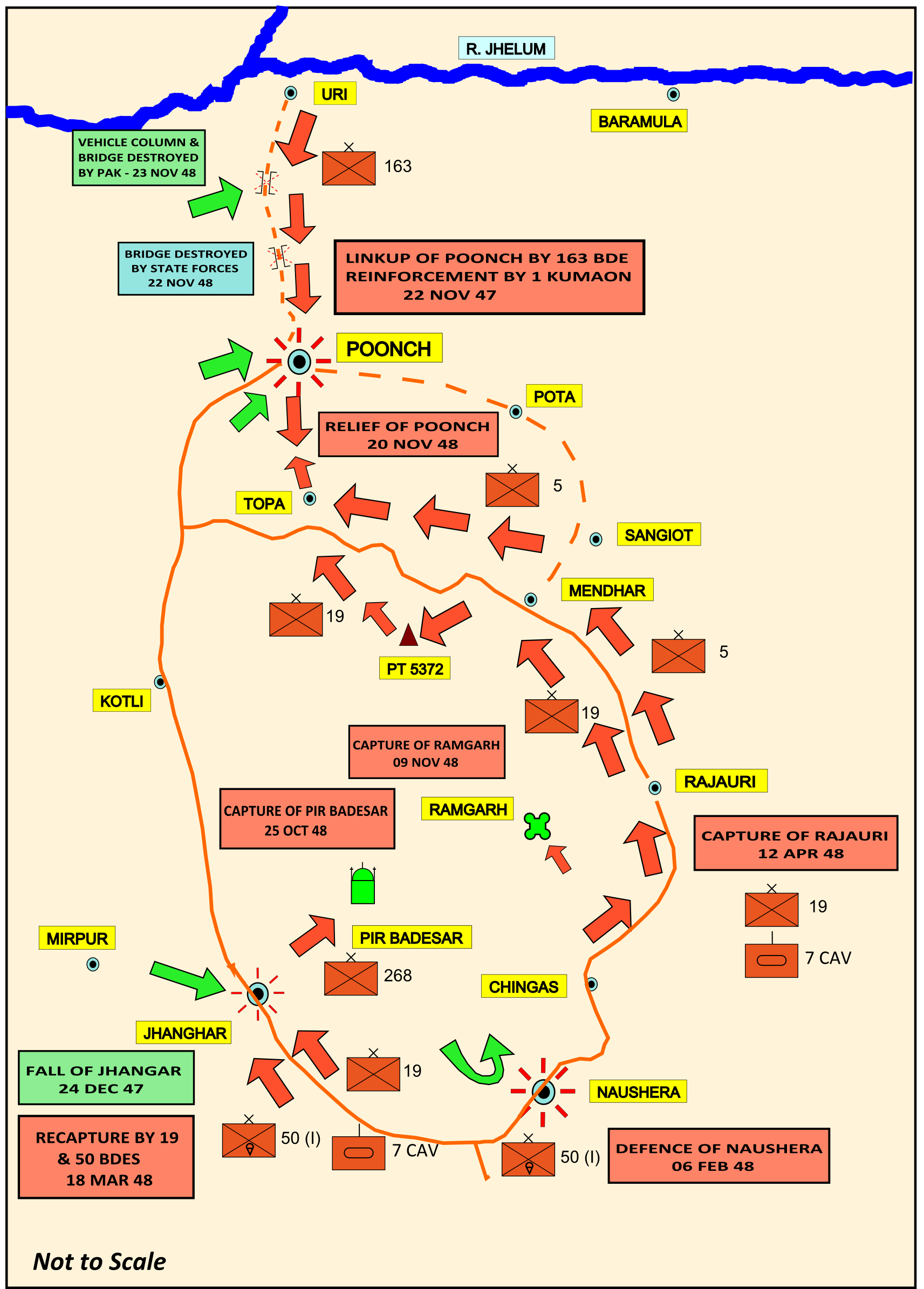 Based on information and sketch in "Operation Rescue:Military Operations in Jammu & Kashmir 1947-49" by Sinha, Lt. Gen. S.K., (1977). Vision Books, New Delhi. (ISBN 81-7094-012-5) (174 pages) (pp 80-102) Entry on Google Books. (Access date 04 August 2010)